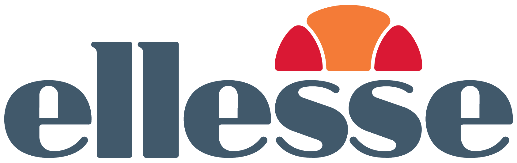 Logo of Ellesse, an Italian fashion company.